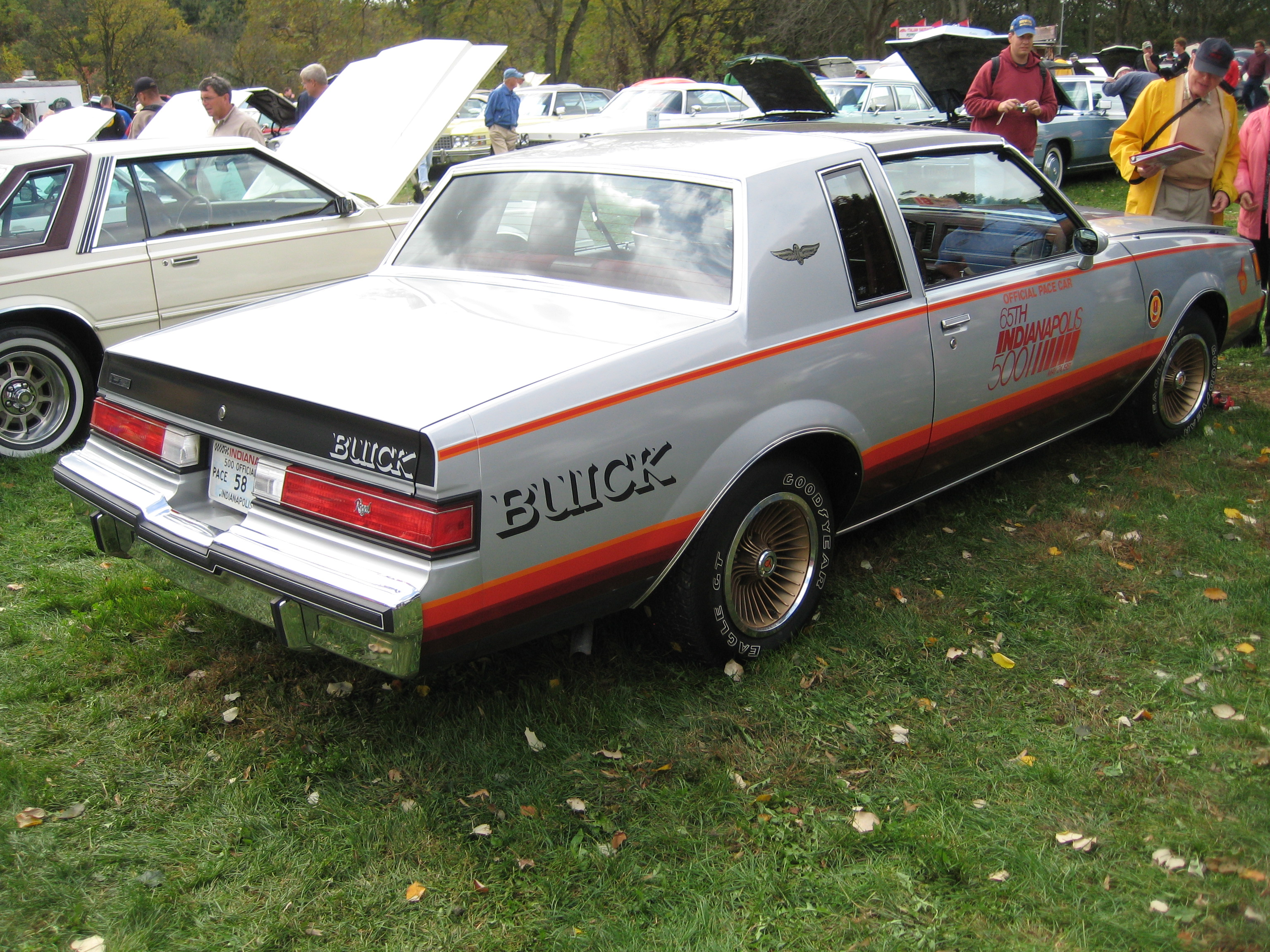 Seen in the car show on the last day of the Antique Automobile Club of America Eastern Region Fall Meet at Hershey, Pennsylvania, October 2009.